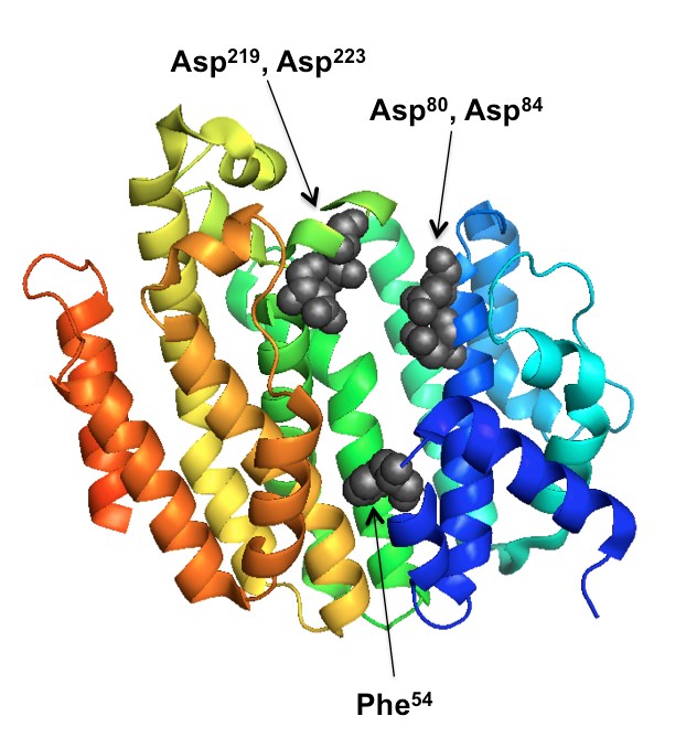 The structure of human squalene synthase. The four aspartate residues indicated are positioned on opposing sides of the central channel of the enzyme. The phenylalanine residue is part of a hydrophobic pocket at one end of the channel. The C-terminus is shown as red; the N-terminus is blue.